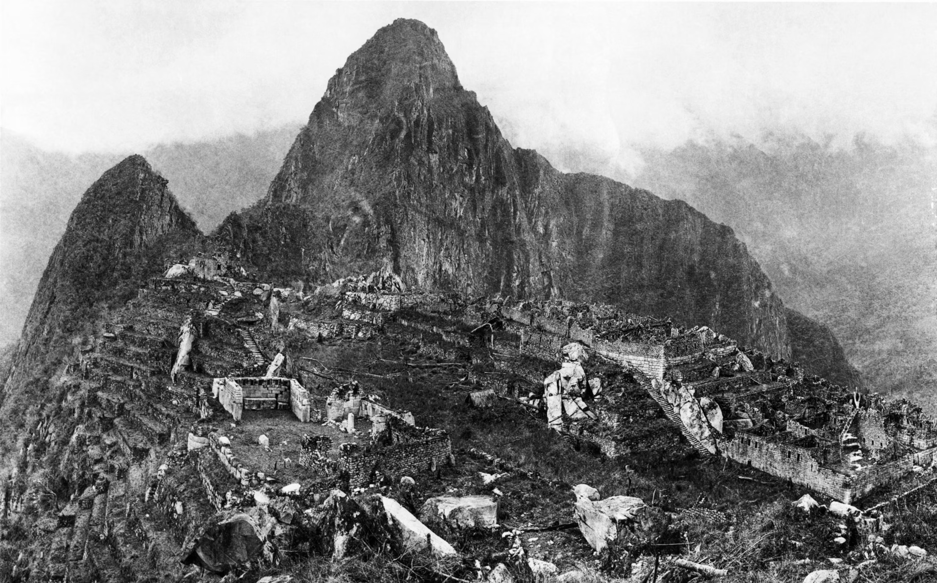 Photograph of Machu Picchu taken by Hiram Bingham III in 1912 after major clearing work had been undertaken. Bingham had rediscoved Machu Picchu in 1911.: « This picture gives a general view of about one-half of the city of Machu Picchu. On the left are the western agricultural terraces. Above them is the Sacred Plaza, with the Chief Temple and the three-windowed temple to the right of it. Above these and connected with them by the finest stairway in Machu Picchu is the sacred hill, on which is located the Intihuatana, or sun dial stone. In the central picture in the immediate foreground are the rough boulders near which we found most of the little bronze pins and artifacts. Above them are the terraced gardens and a thatched hut built by the modern Indians. Above this in turn is one of the most densely crowded portions of the city, while to the right above the long stairway is the group called the Private Garden Group, and below it, on the extreme right, the group characterized by greatest ingenuity in its stonework. The beautiful peak of Huayna Picchu overshadows the city like a sentinel. On its summit were found a few rough caves whence guards could give warning of approaching danger » (